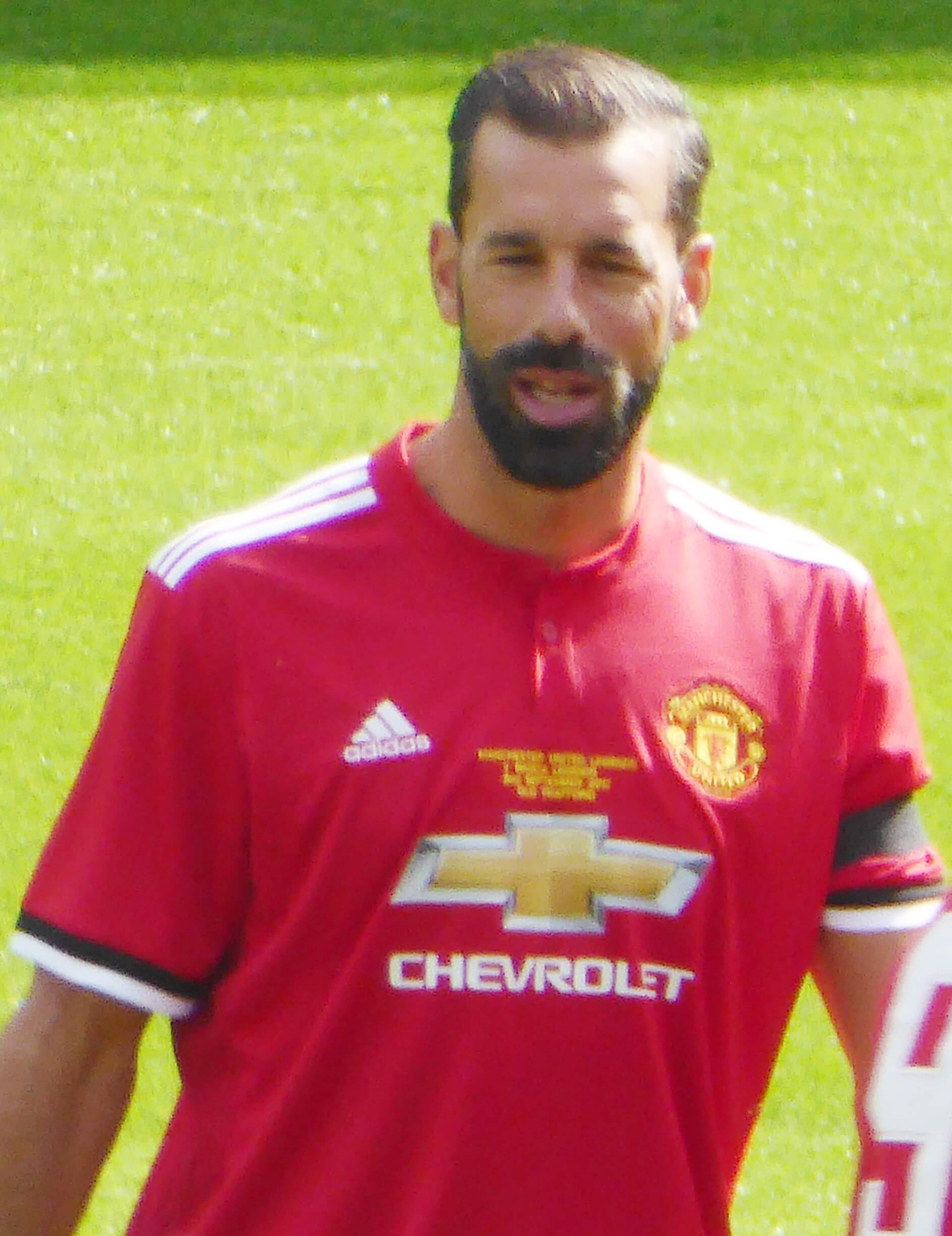 Ruud van Nistelrooy at Manchester United Legends v Barcelona Legends (2-2), Friendly, Old Trafford, Manchester, Greater Manchester, England, 2 September 2017